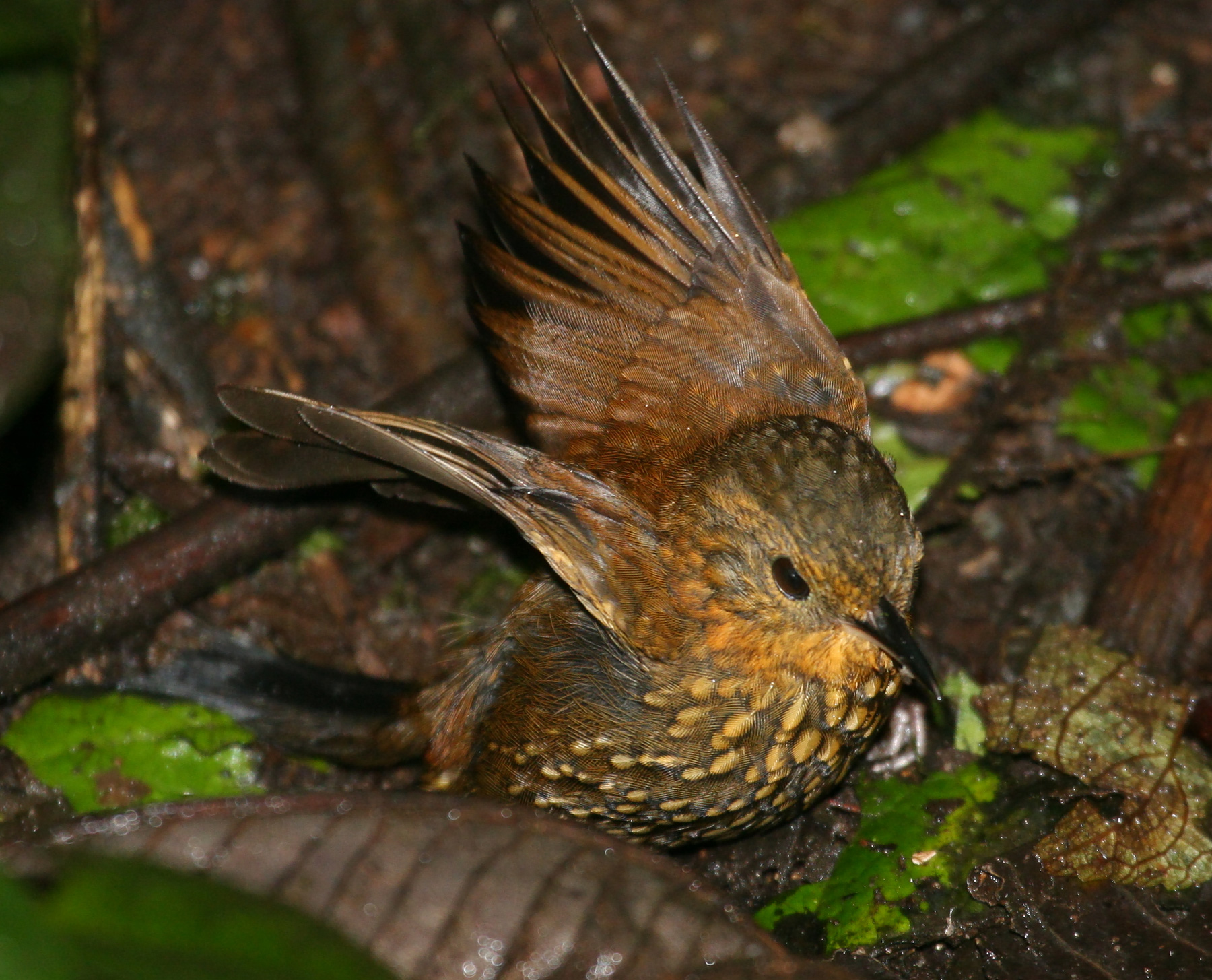 Spotted barbtail (Premnoplex brunnescens), Tandayapa Valley, NW Ecuador